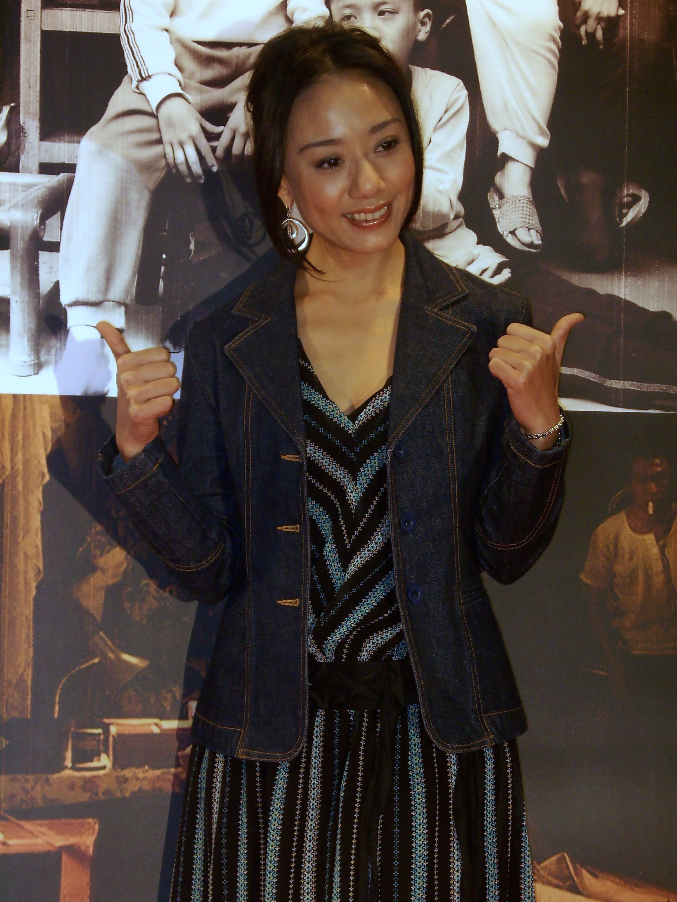 2008 Taipei International Book Exhibition - Activity Center 2: Francesca Kao, an actress of Taiwan, at DaAi TV "Picking Spikes" Debut.